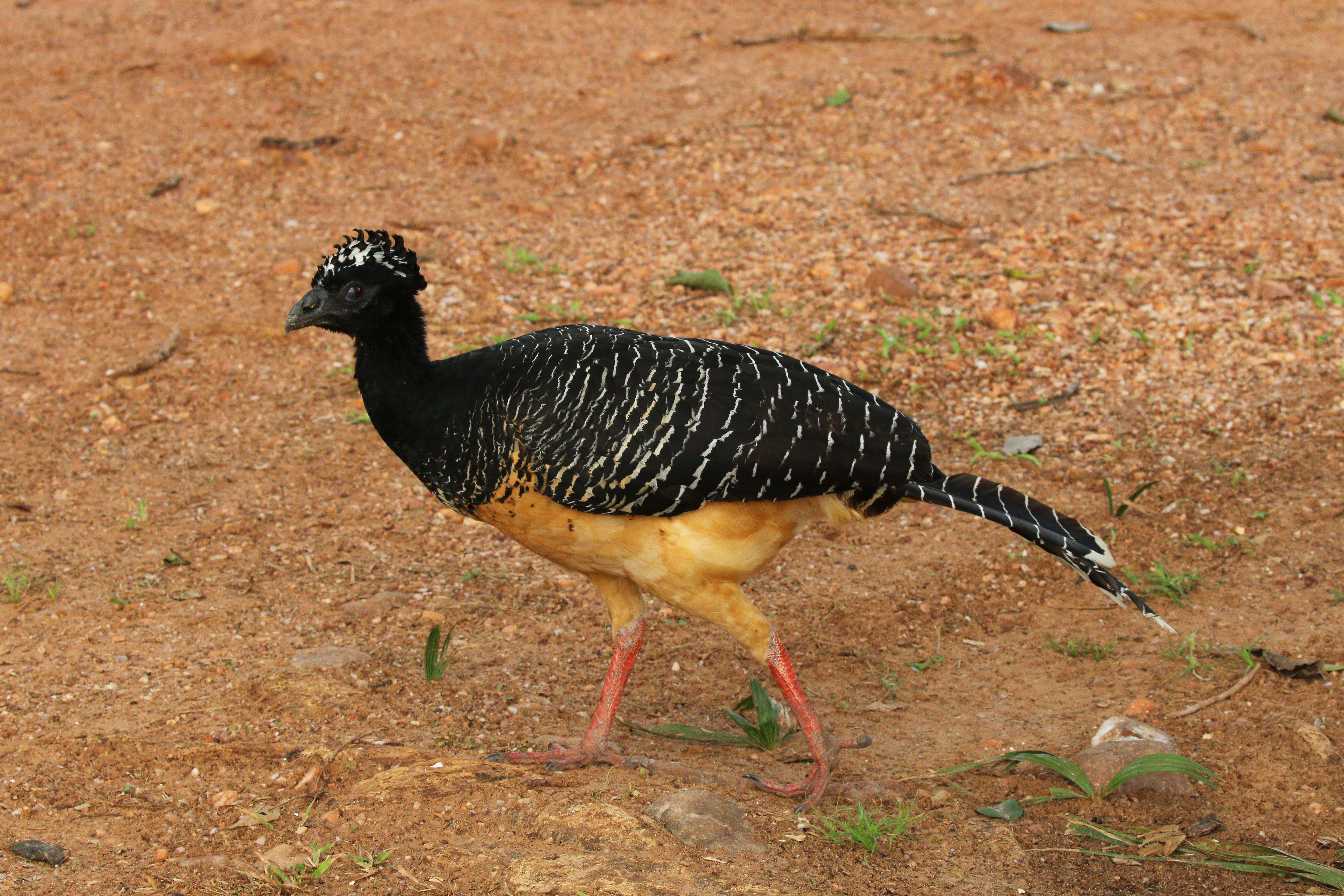 Bare-faced curassow (Crax fasciolata) female, Pantanal, Brazil